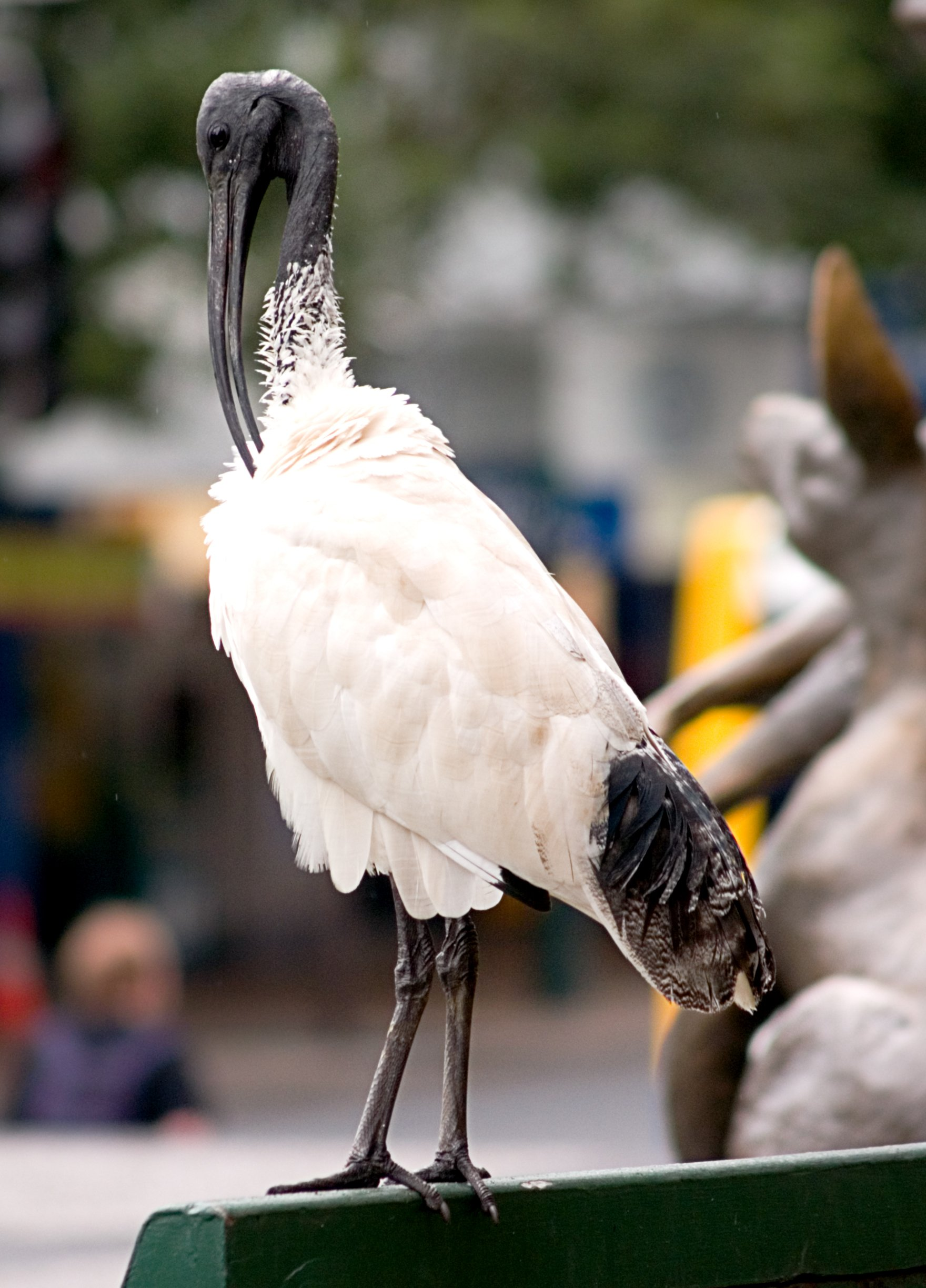 Ibis seem like the flavour of the month at the moment, and I have to admit, this one did look pretty impressive as he was preening.Preening